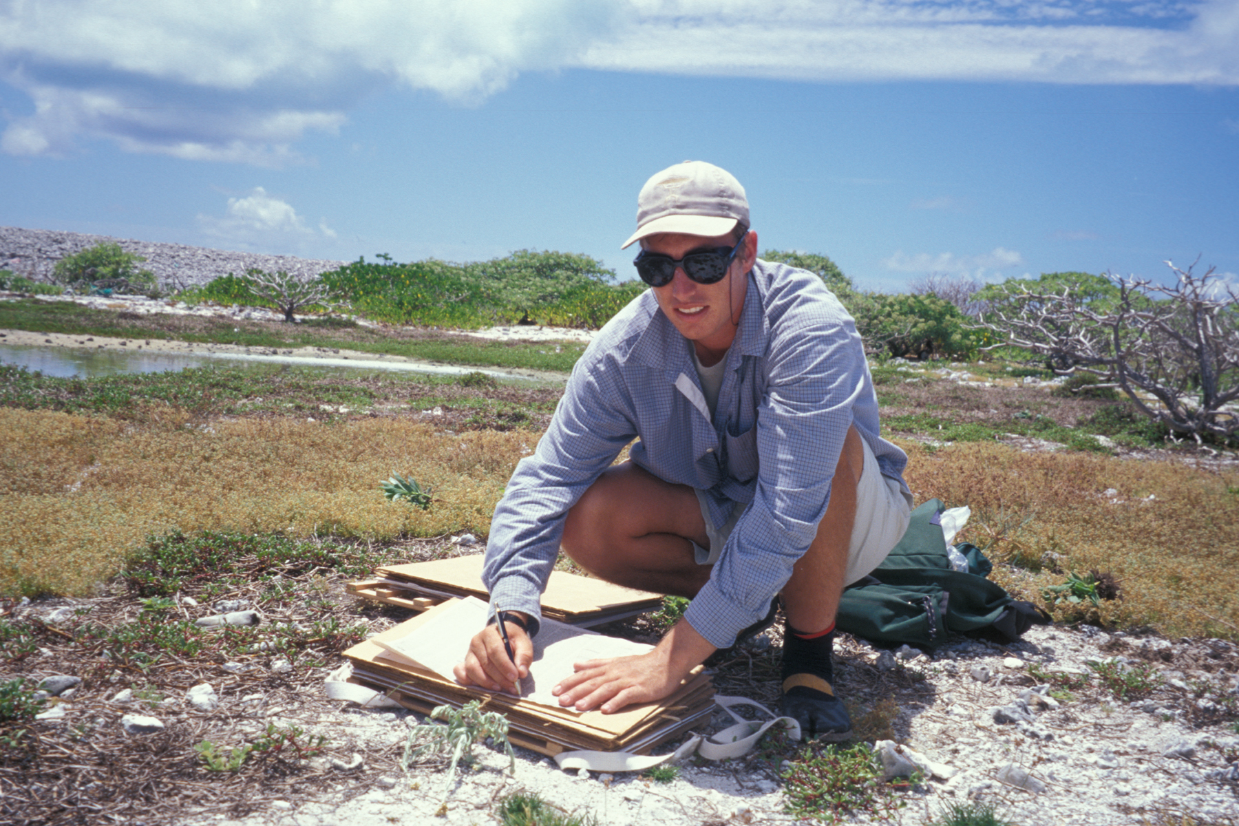 Gnaphalium sandwicensium (Forest pressing plants). Location: Midway Atoll, Spit Island